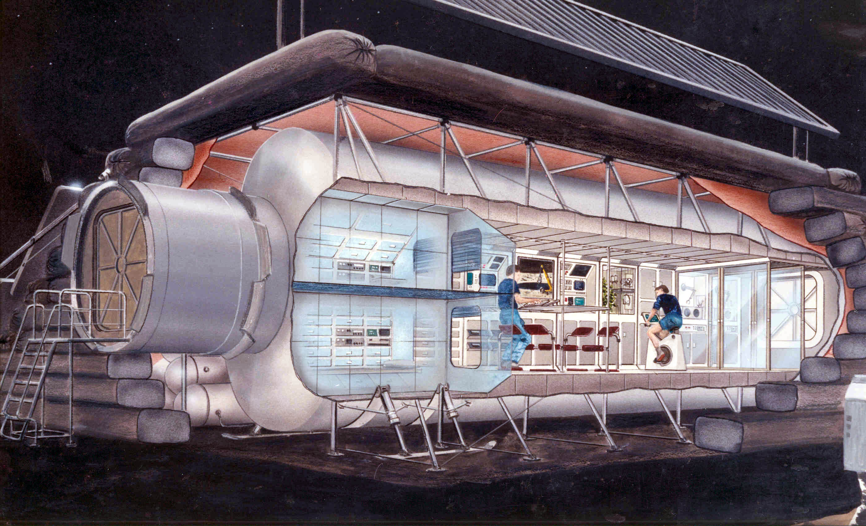 Early Lunar Outpost based on a module like those used for the International Space Station. Equipment is mounted in modular racks. Most equipment directly supports human life support, human health, and habitation.